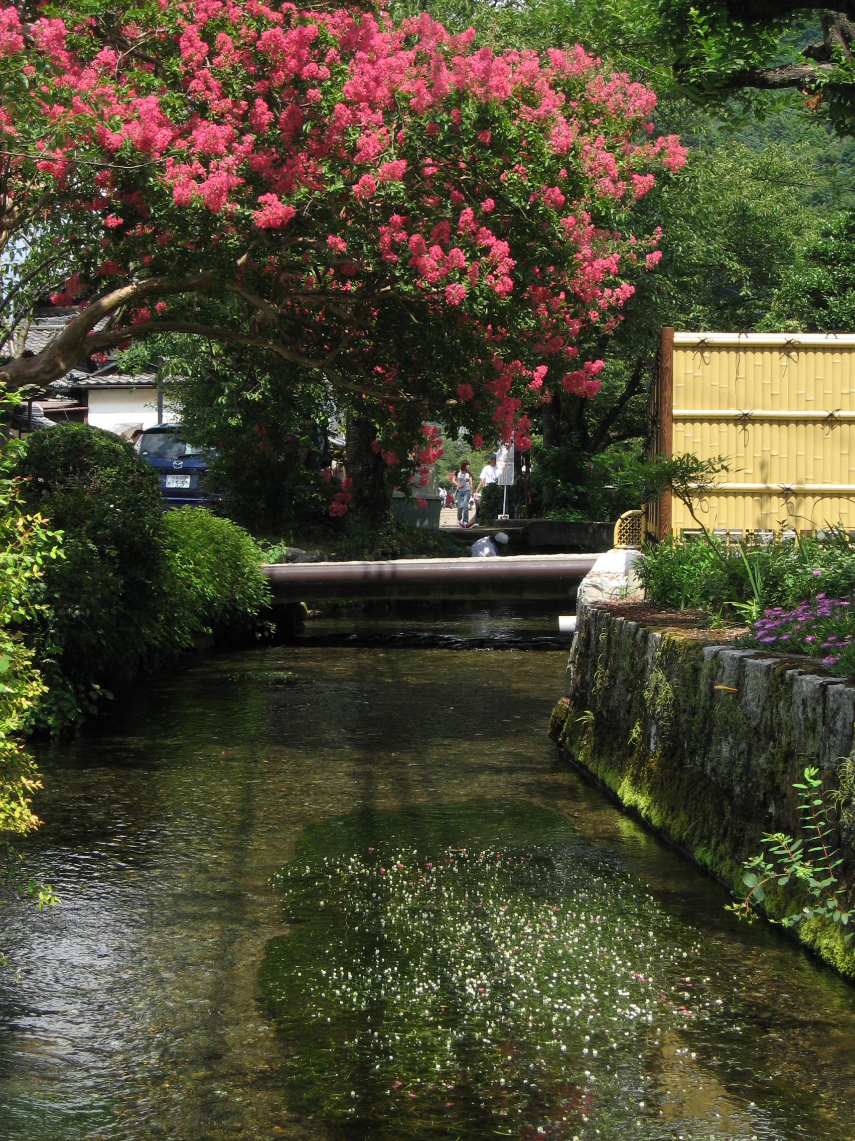 Lagerstroemia indica and Ranunculus nipponicus var. submersus at River Jizo, Samegai Maibara Shiga, Japan.